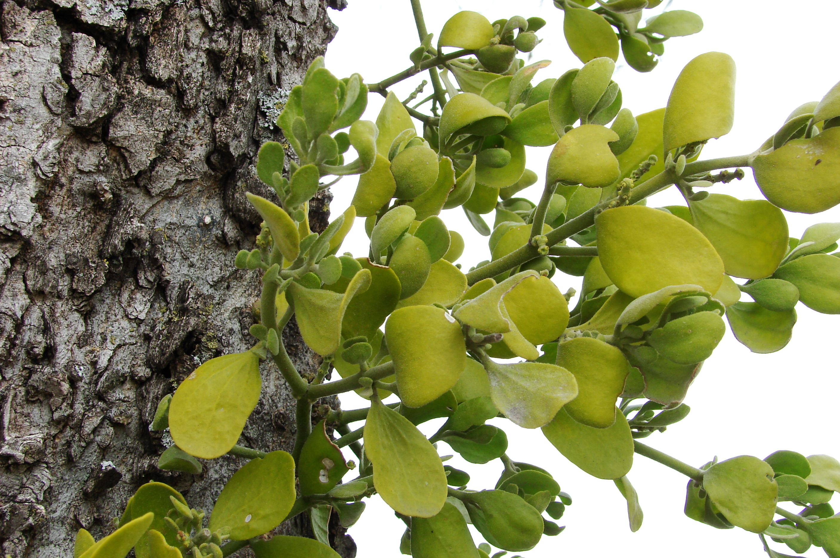 Eastern Mistletoe Phoradendron leucarpum in Northeast Texas.